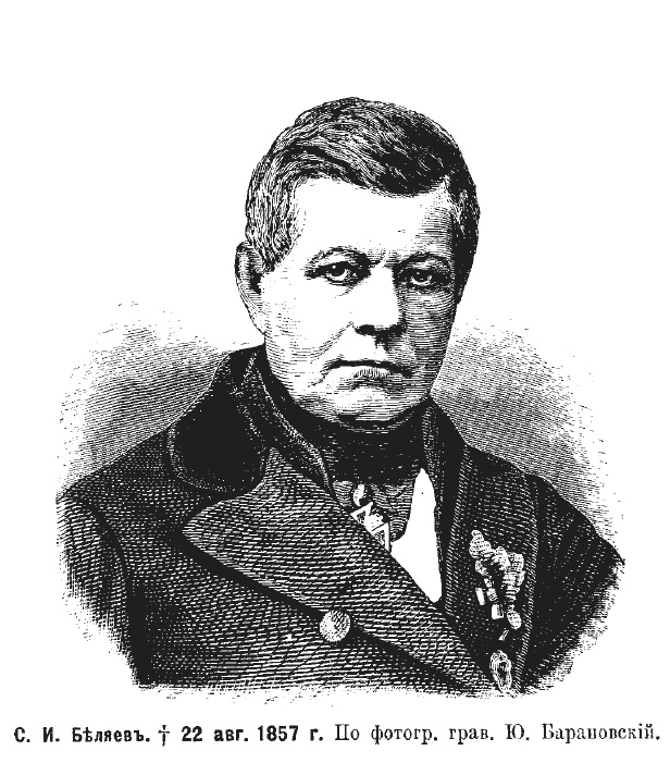 Savva Belyaev, etching (1884), scan